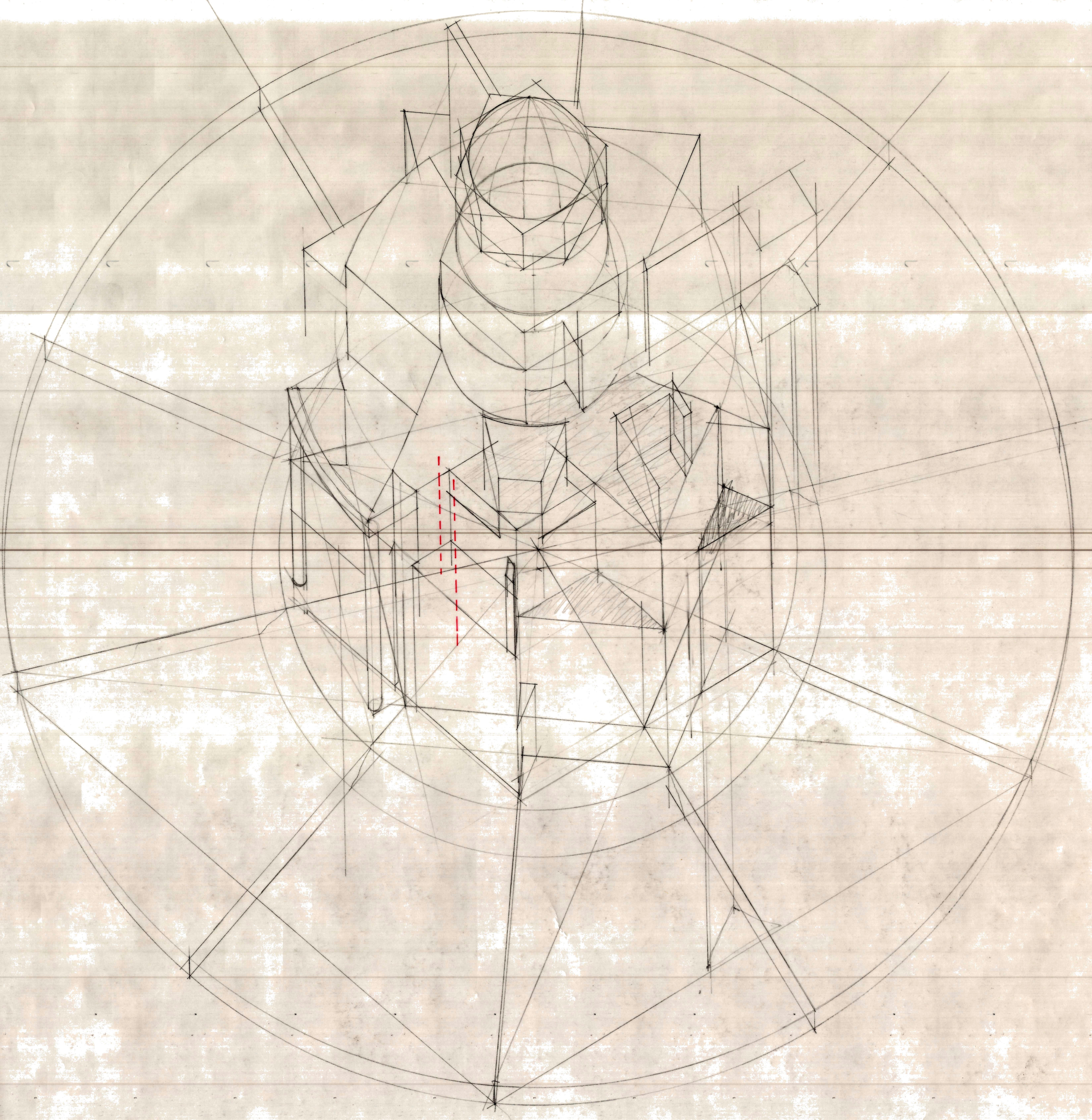 Featured images for Douglas Jarvie Clelland Wikipedia article